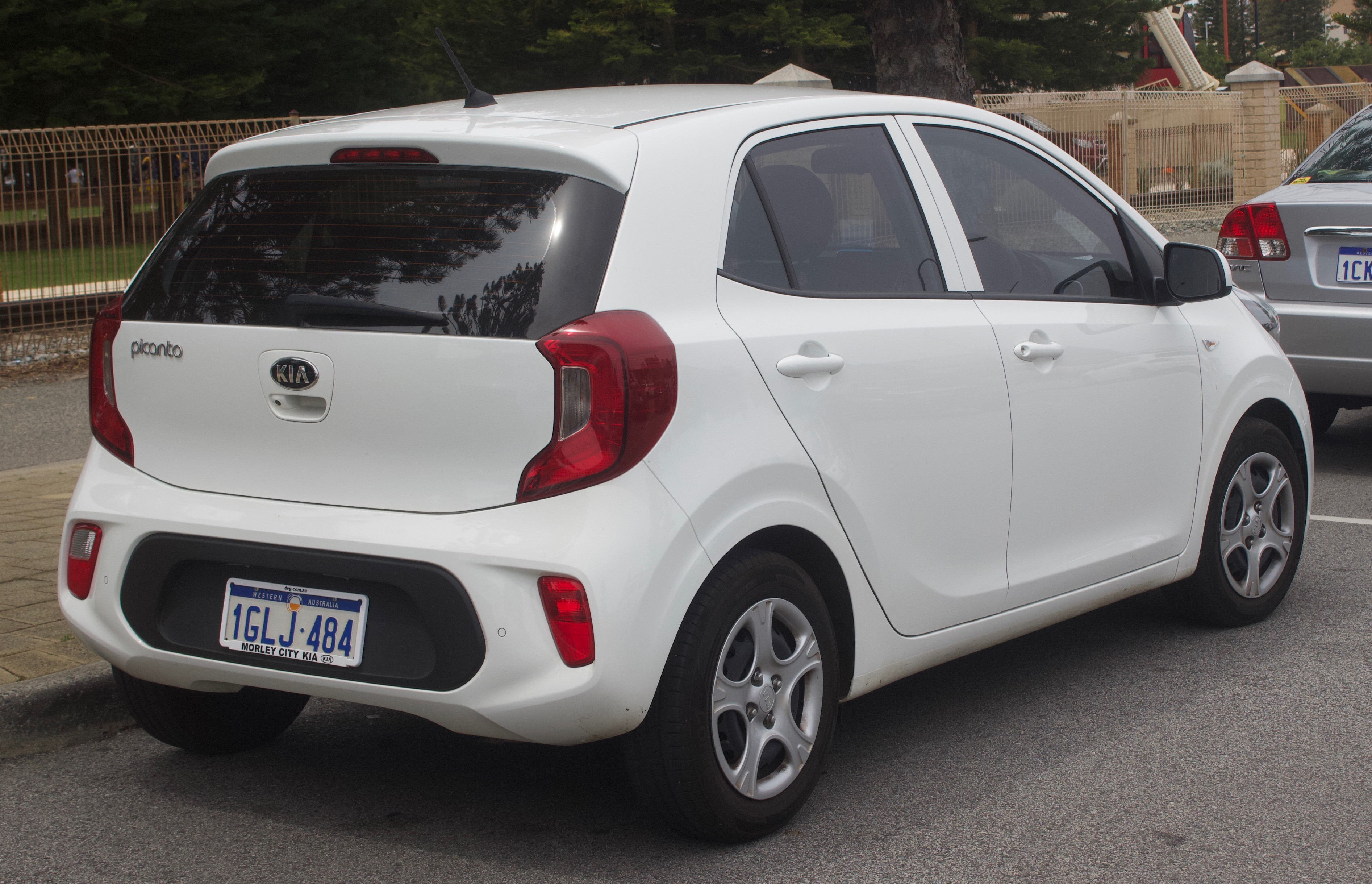 2018 Kia Picanto (JA MY19) S hatchback. Photographed in Fremantle, Western Australia, Australia.